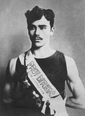 Slovene aviator Edvard Rusjan after winning a bicycle race